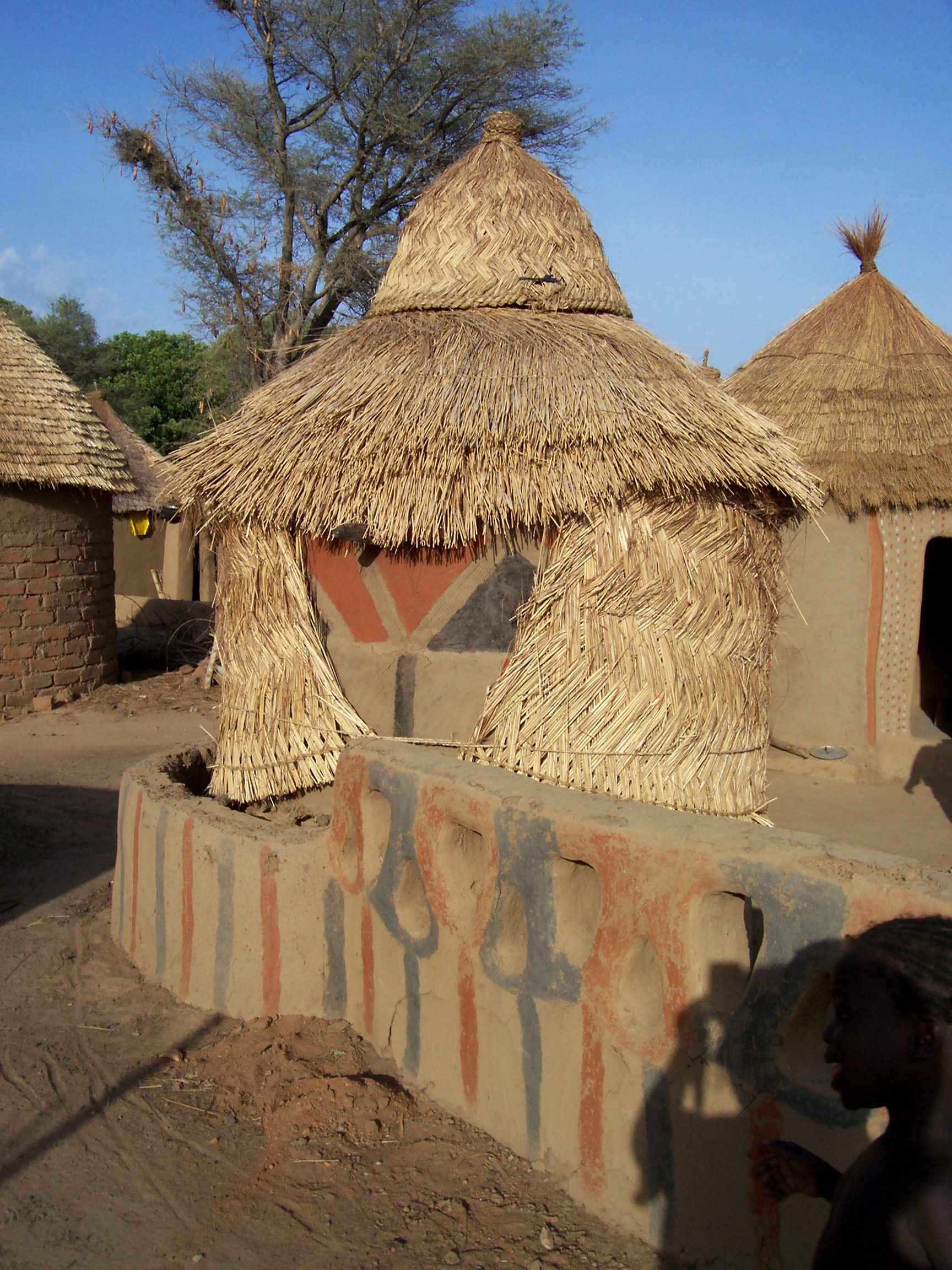 Masa granary (Chad)